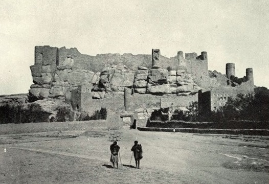 Walled city of Rada'a, in Yemen, photographed by Hermann Burchardt